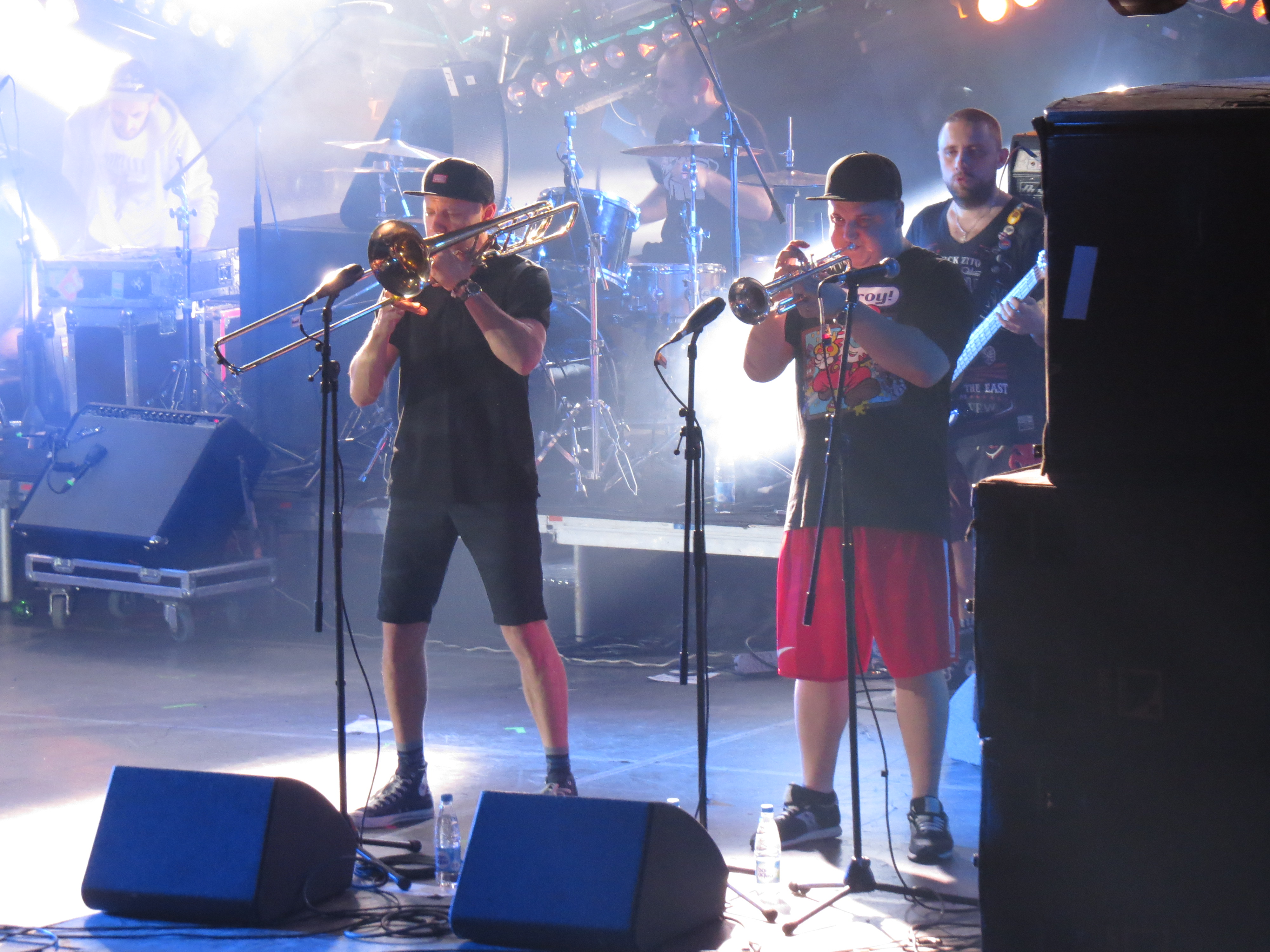 Concert "20 years of Runet" in Arena Moscow. April 7, 2014.